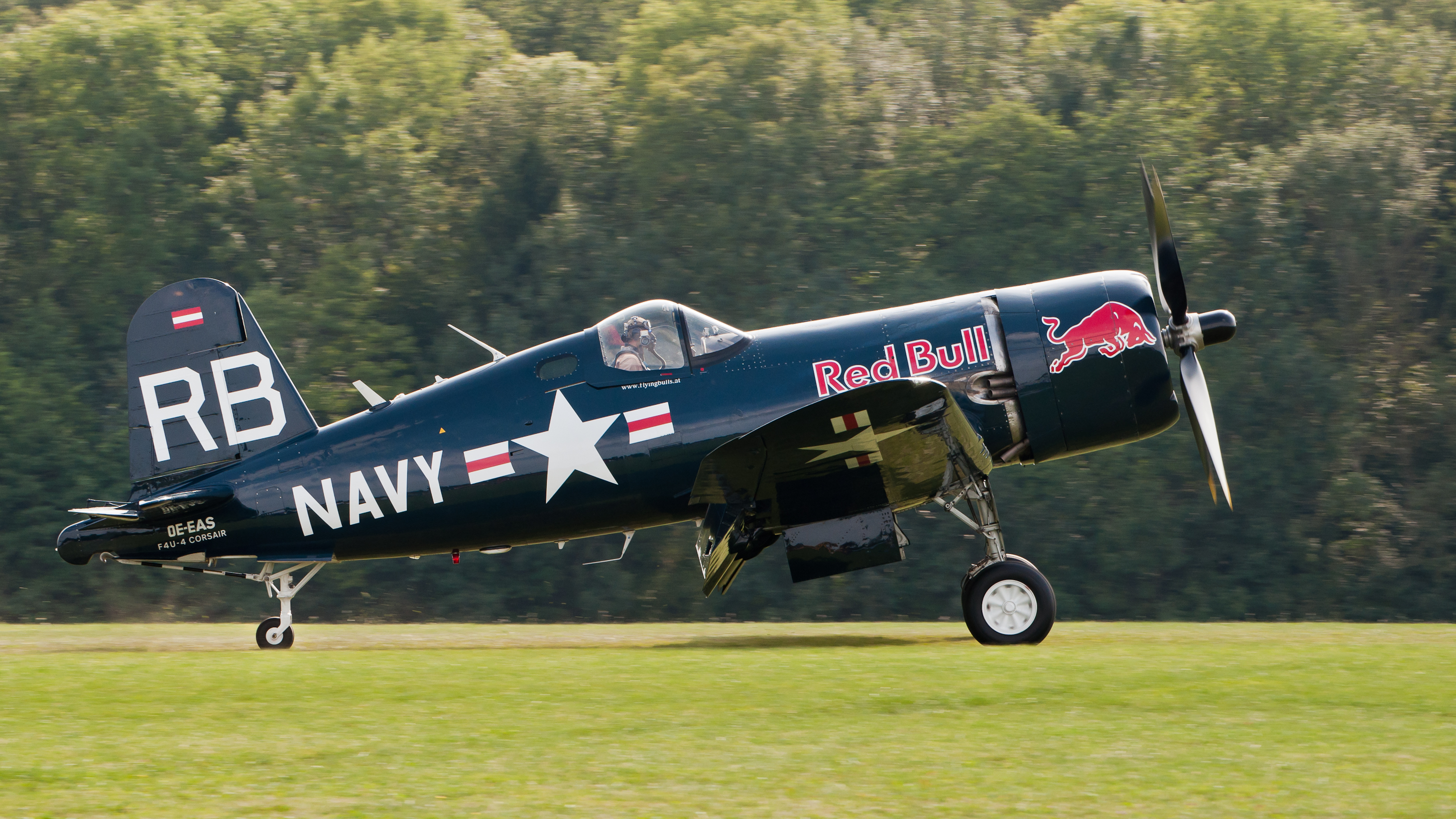 Eric Goujon/Red Bull Vought F4U-4 Corsair (reg. OE-EAS, cn 9149, built in 1945). Engine: Pratt & Whitney R2800 CB-3 (2100 hp).